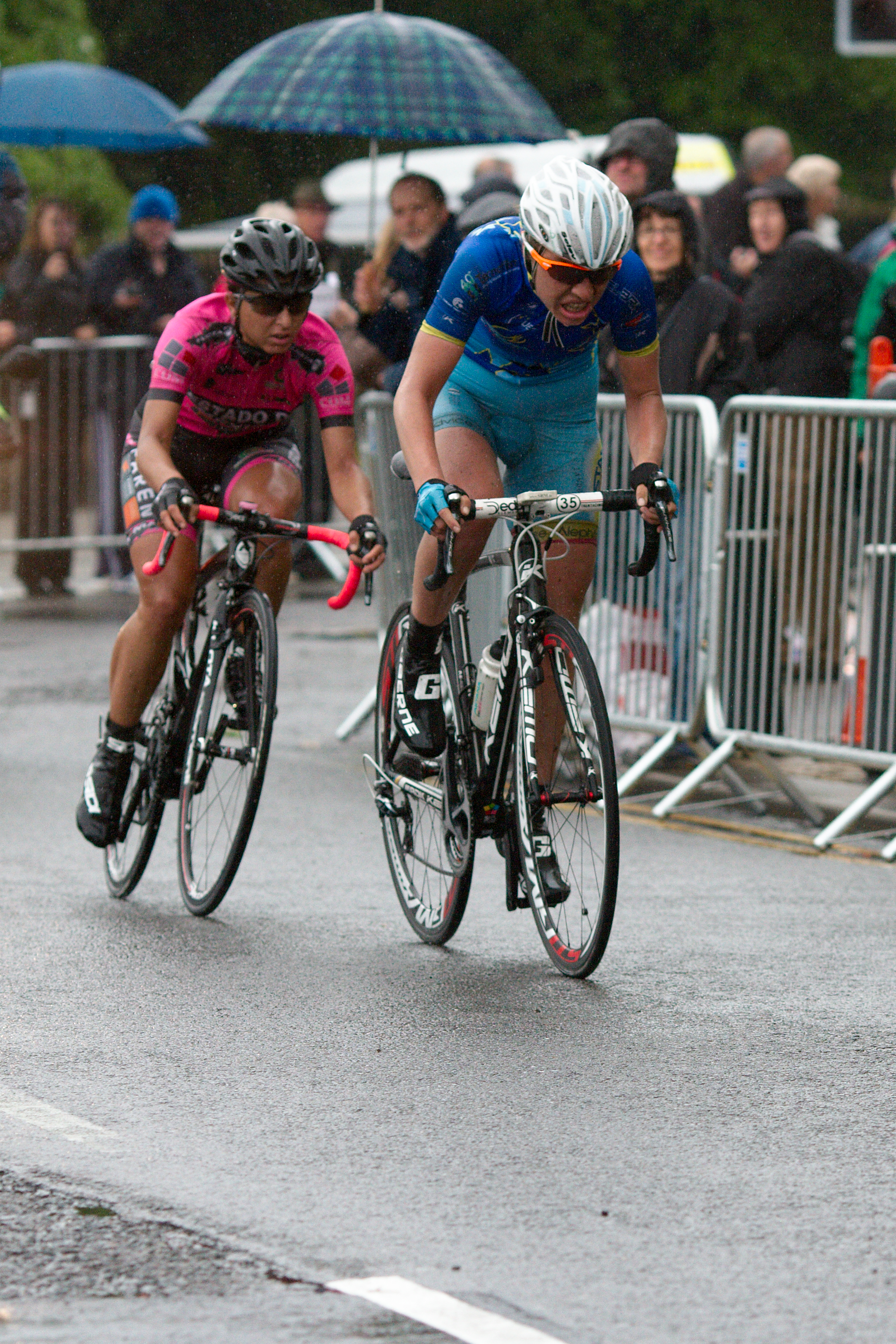 Susanna Zorzi (Astana BePink) leading Rossella Ratto (Estado de Mexico Faren) out of the final turn during stage two of the Women's Tour 2014. Ratto later took the stage win, with Zorzi second.